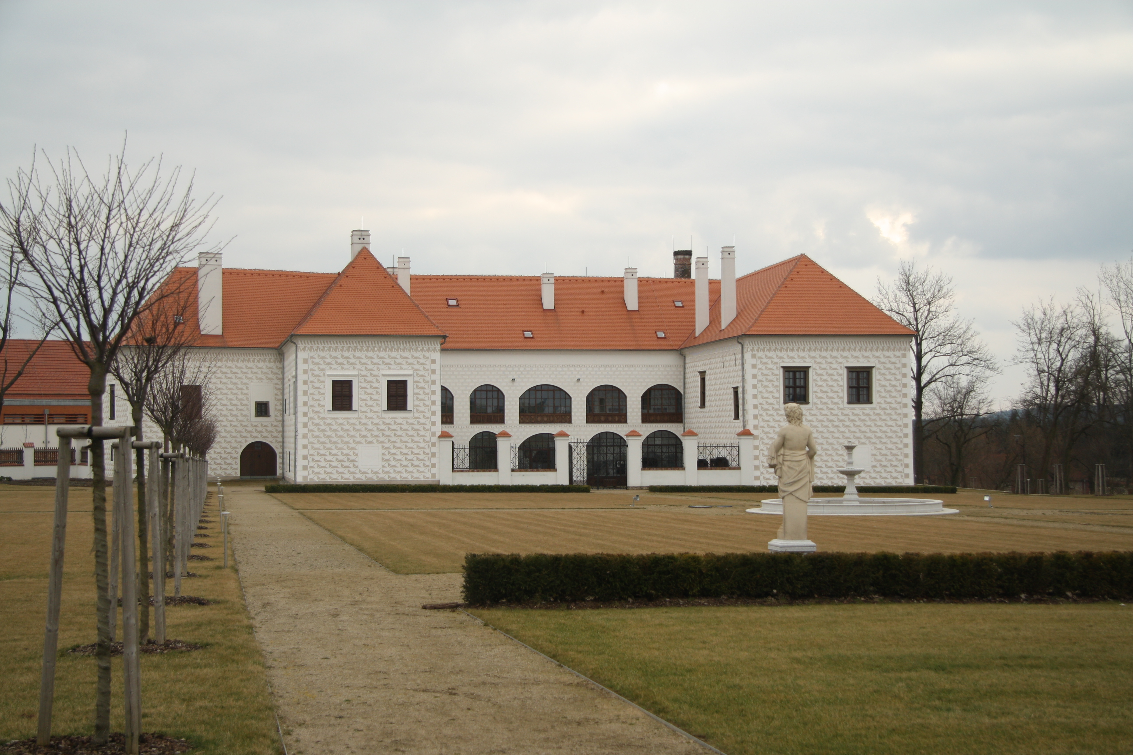 Overview of castle Valeš and castle park in Valeč, Třebíč District.